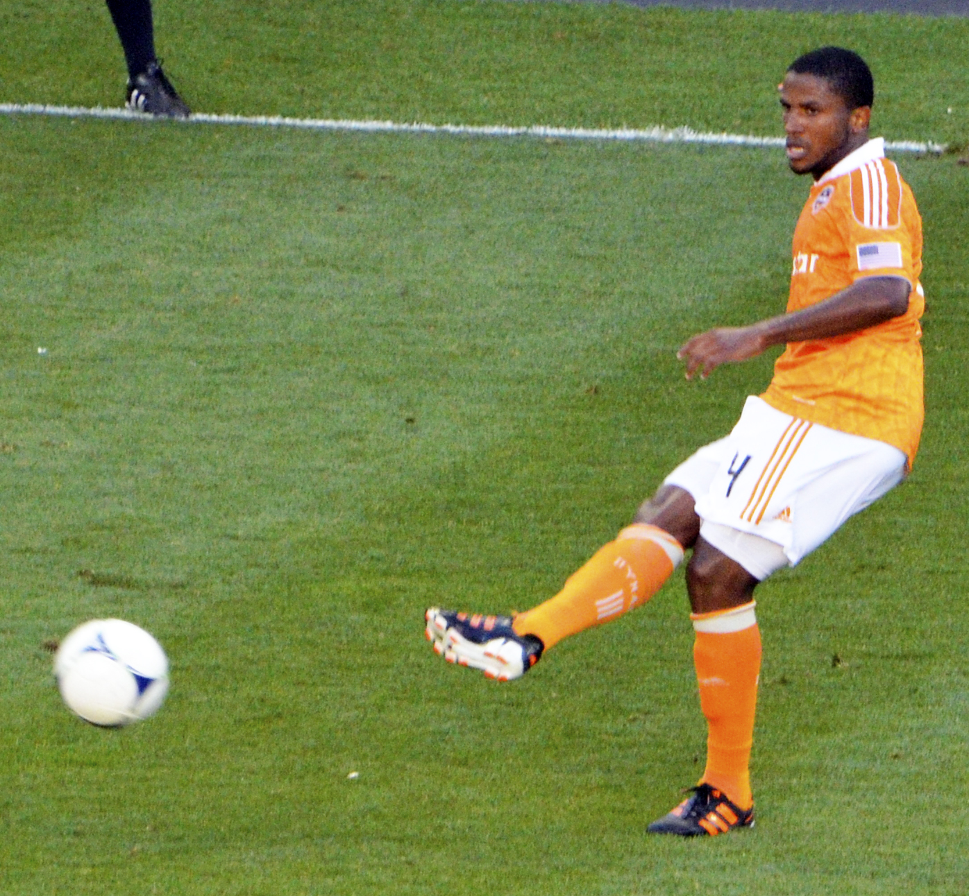 Jermaine Taylor, defender for the Houston Dynamo's makes a pass versus the Sporting KC at Livestrong Sporting Park, in Kasnas City, Kansas on July 7th, 2012